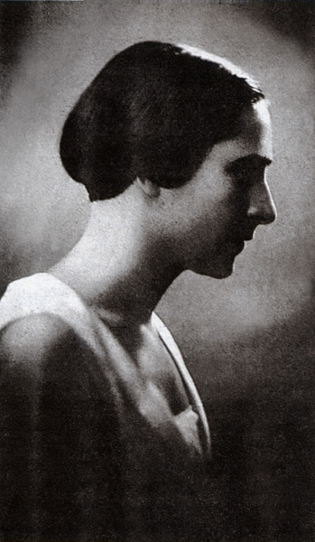 Irena Krzywicka, Polish writer, 1930